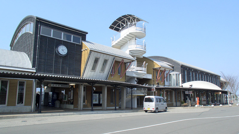 Asagiri Town Commerce and Industry Community Center and Kumagawa Railroad Asagiri Station, 22 March 2007